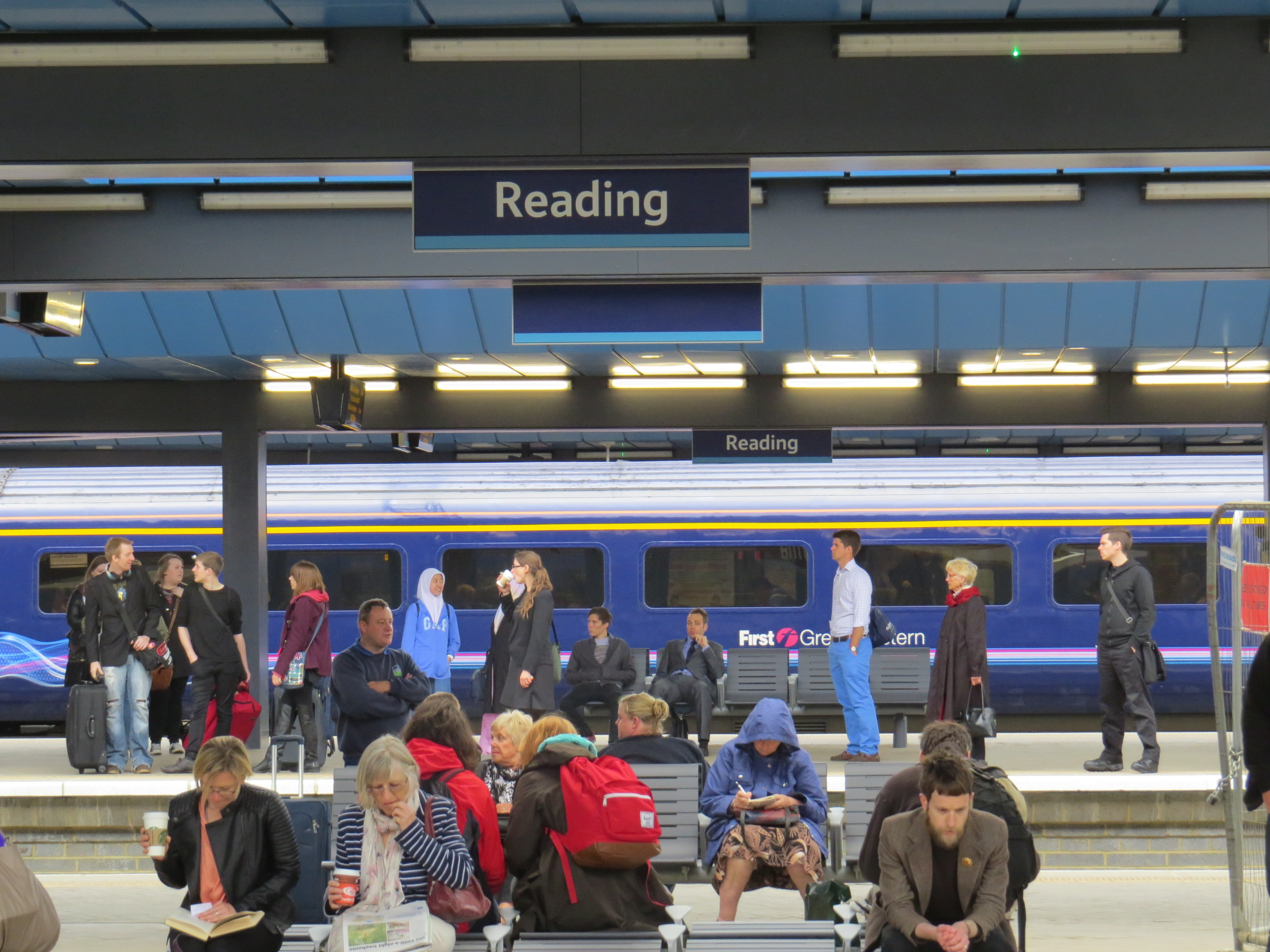 Reading station, Berkshire: train, platform & passengers